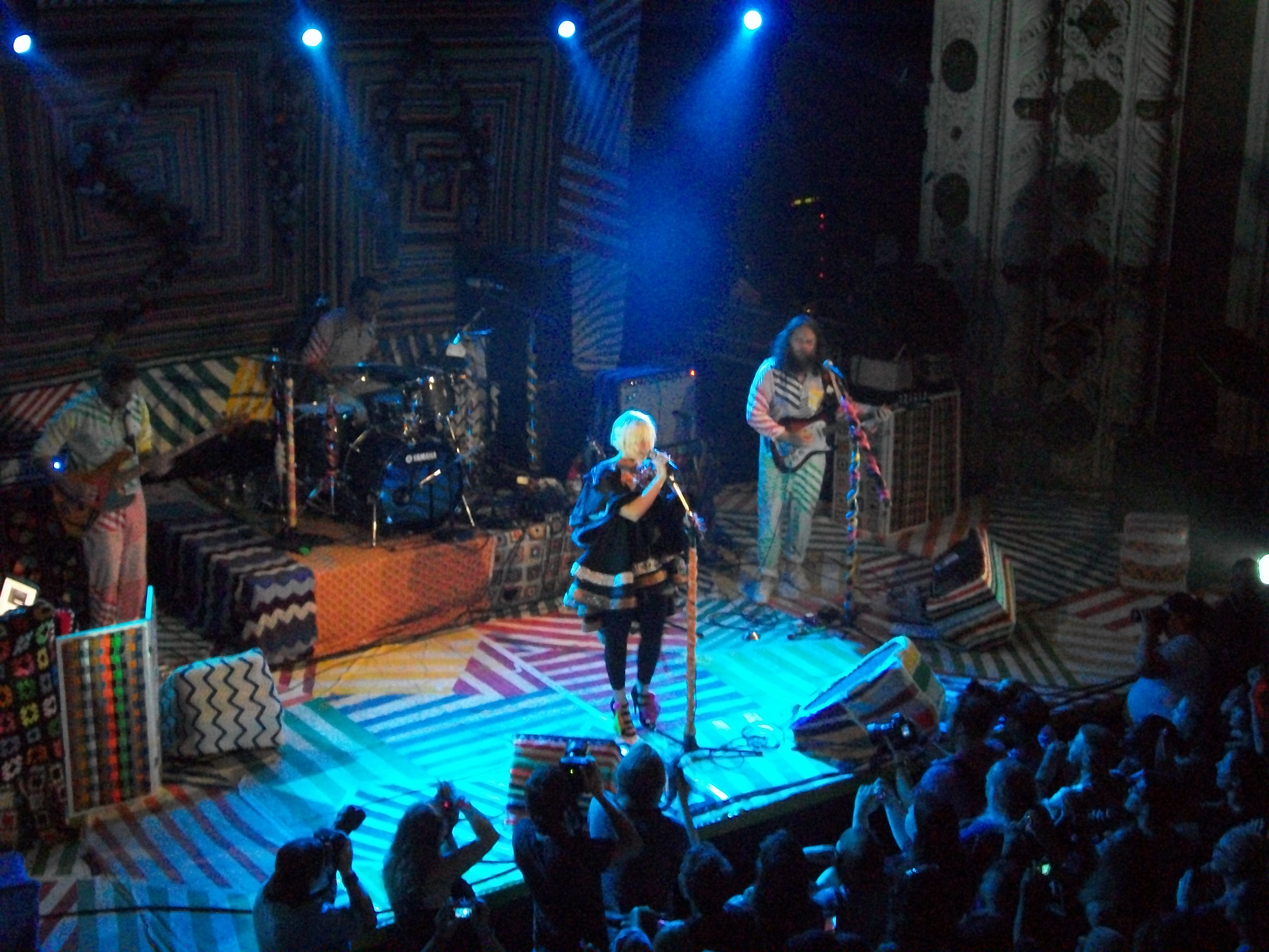 Sia performing live in 2011